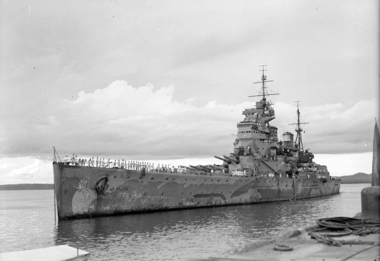 The Royal Navy battleship HMS Prince of Wales coming in to moor at Singapore.